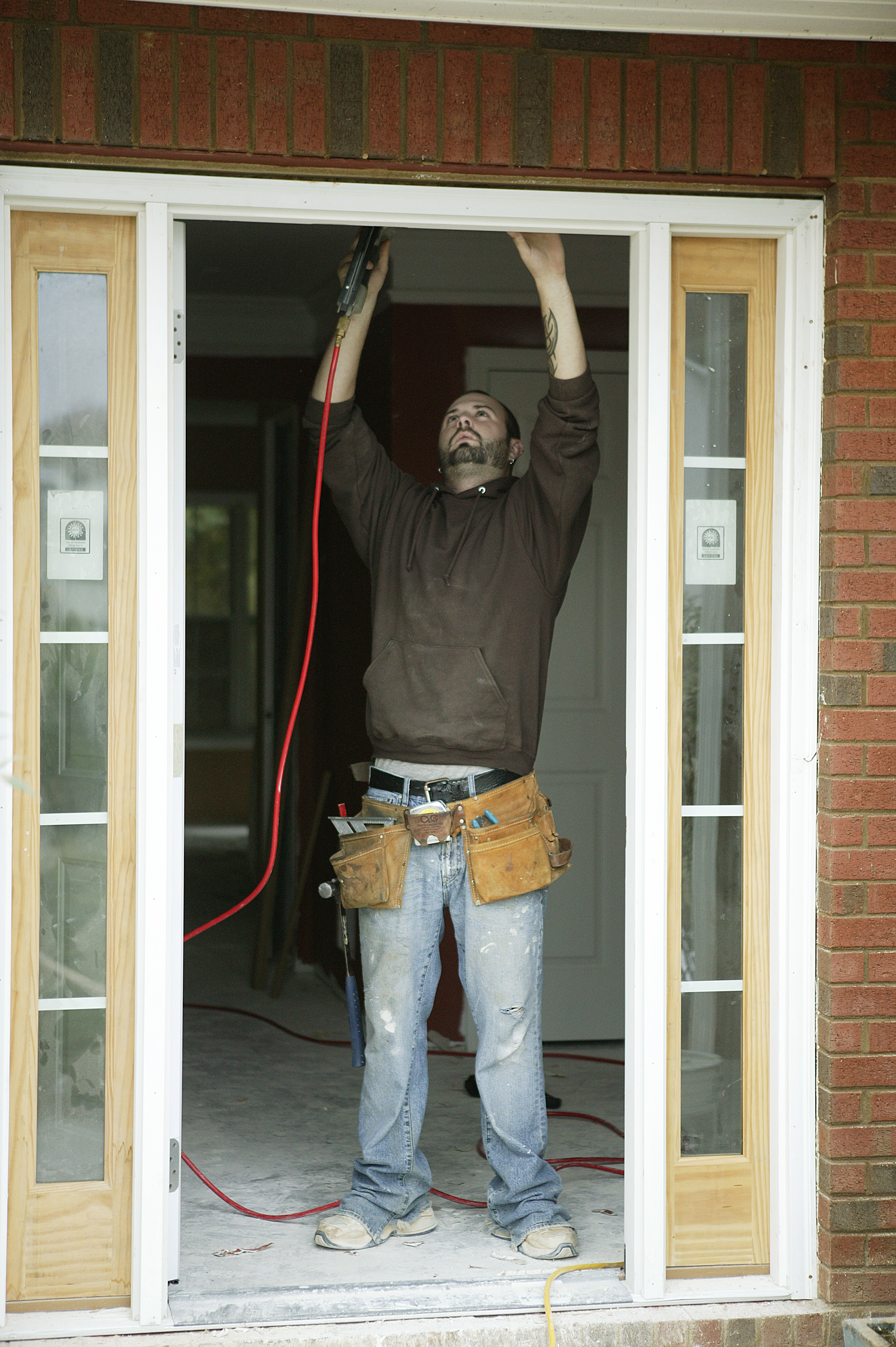 Austell, GA, November 2, 2009 -- A contractor makes repairs to a home flooded during the severe storms and flooding that damaged thousands of Georgia homes in September 2009. FEMA is actively working with homeowners in the recovery process. David Fine/FEMA